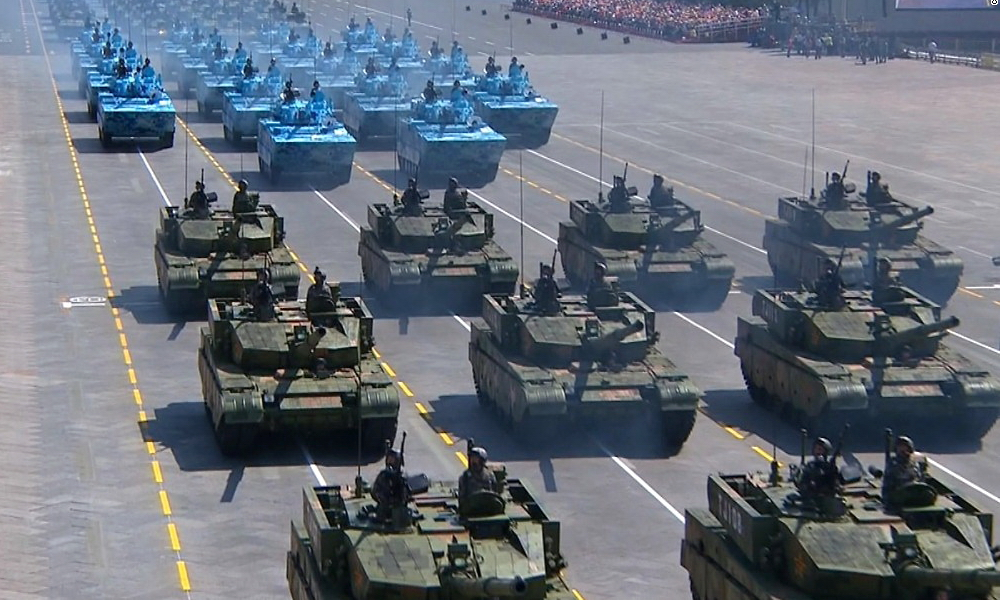 2015 China WWII Parade (screenshot)